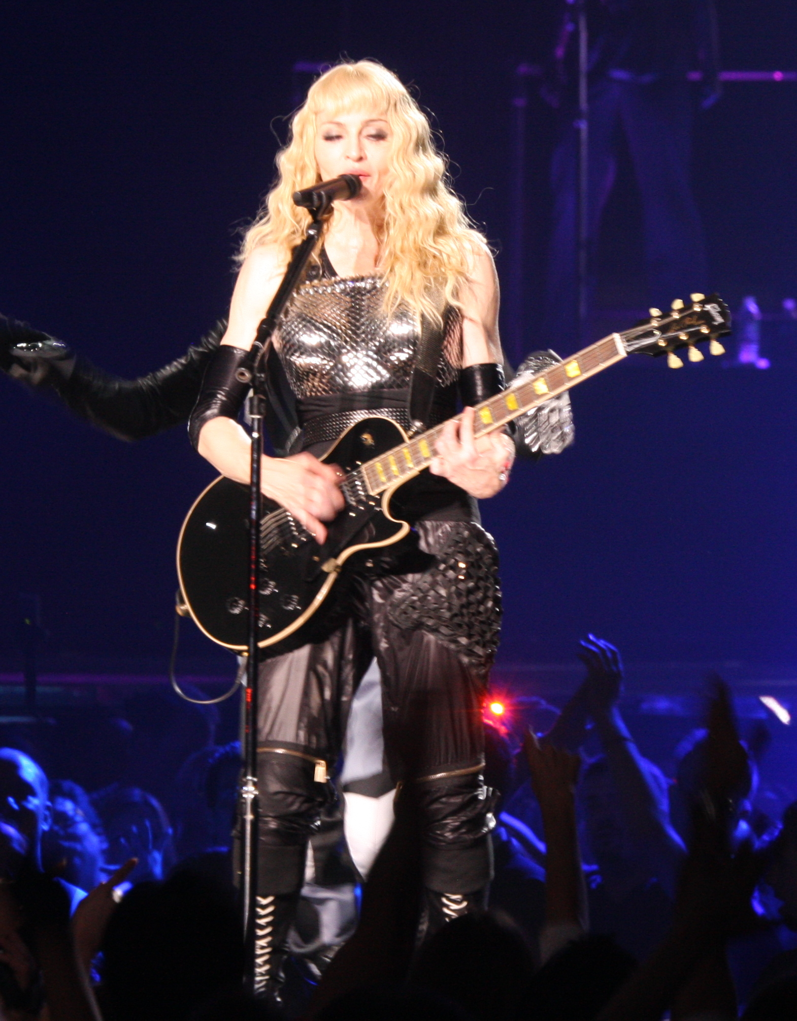 Madonna concert